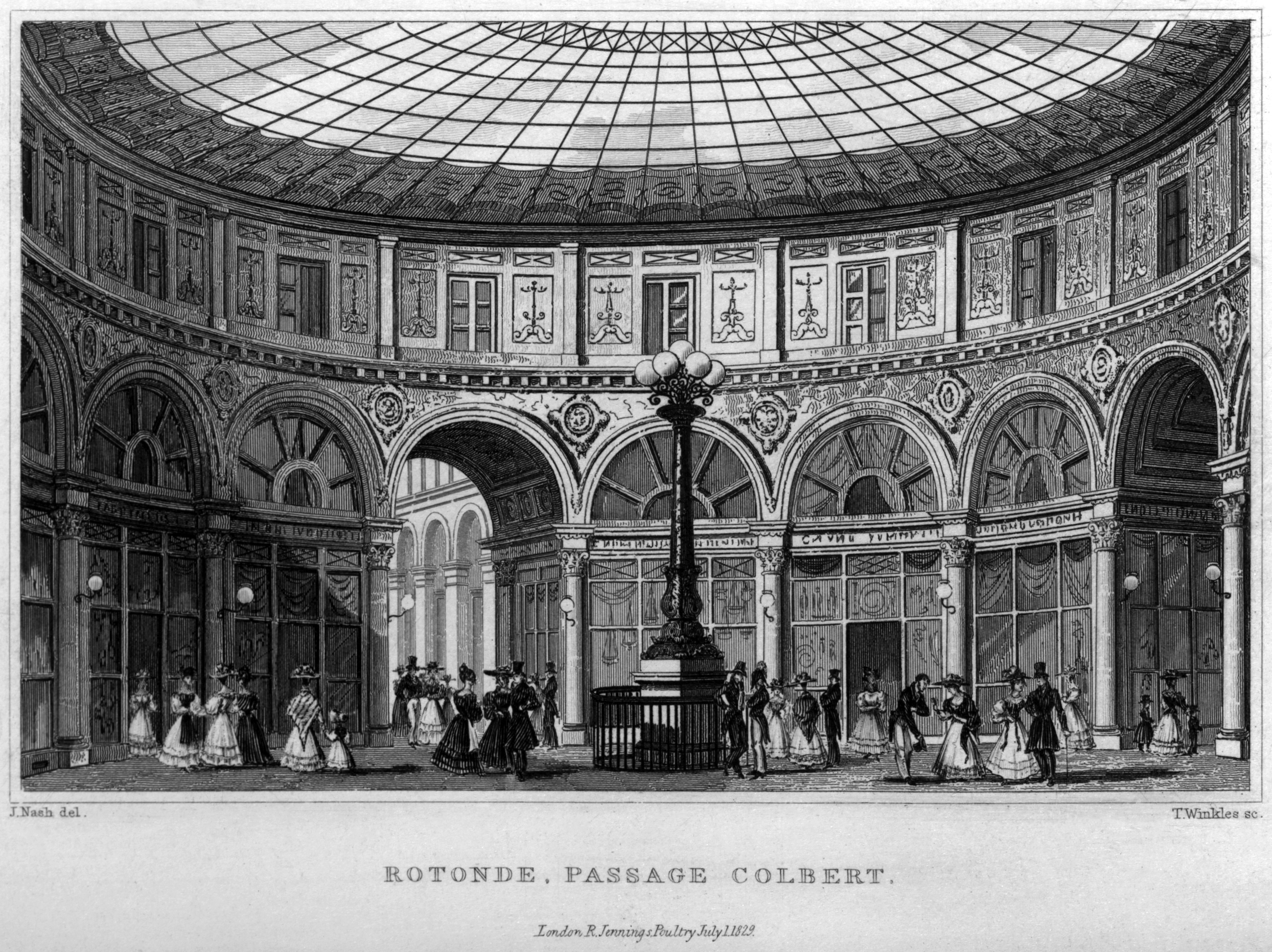 Inspired by the charm and success of the Galerie Vivienne, the Galerie Colbert was built in 1826 in an attempt to duplicate the splendor of its predecessor. The Galerie's artistic refinements, such as the various paintings and statues that decorate the interior, as well as its glass roof supported by marble columns, served to distinguish it from its contemporaries. Its main attraction, however, was its enormous rotunda, measuring 15 meters in diameter and by which visitors could access the rue Vivienne. Despite its impressive architecture and artistic charm, the Galerie Colbert never experienced the economic success that its creators anticipated. After a series of minor demolitions, the Galerie Colbert was temporarily closed in 1975 but rebuilt in 1985 under the direction of the Bibliothèque Nationale. The new Galerie is a close reproduction of the original and an attempt to preserve its architectural and artistic designs. It is located in the second arrondissement parallel to the Galerie Vivienne.